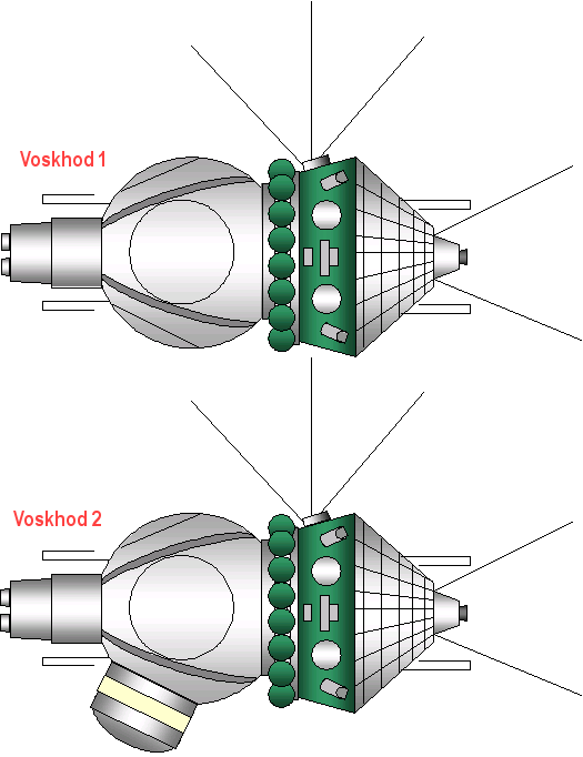 Voskhod 1 and 2 spacecraft diagrams